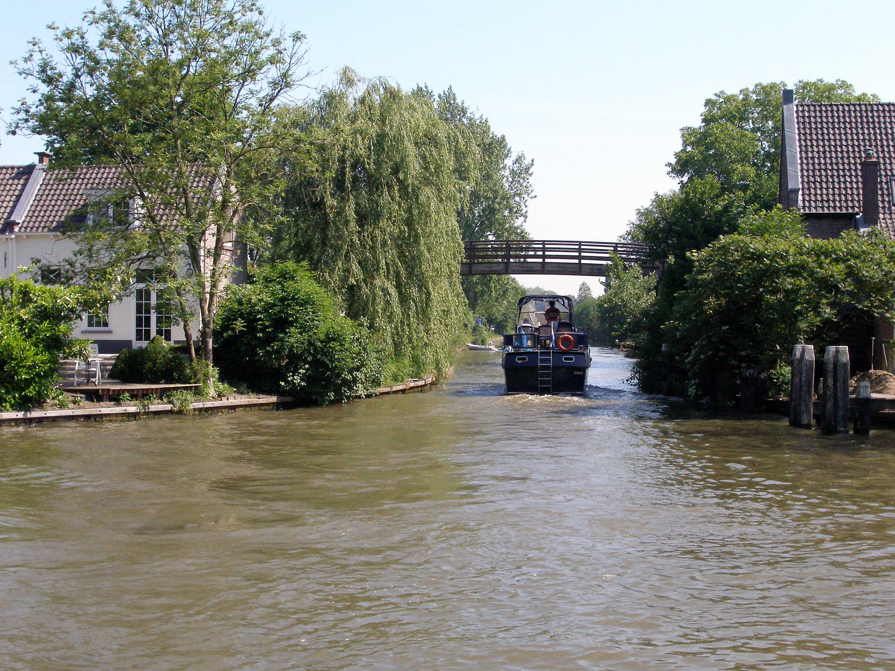 The river Hollandse IJssel and the canal Doorslag, in Nieuwegein